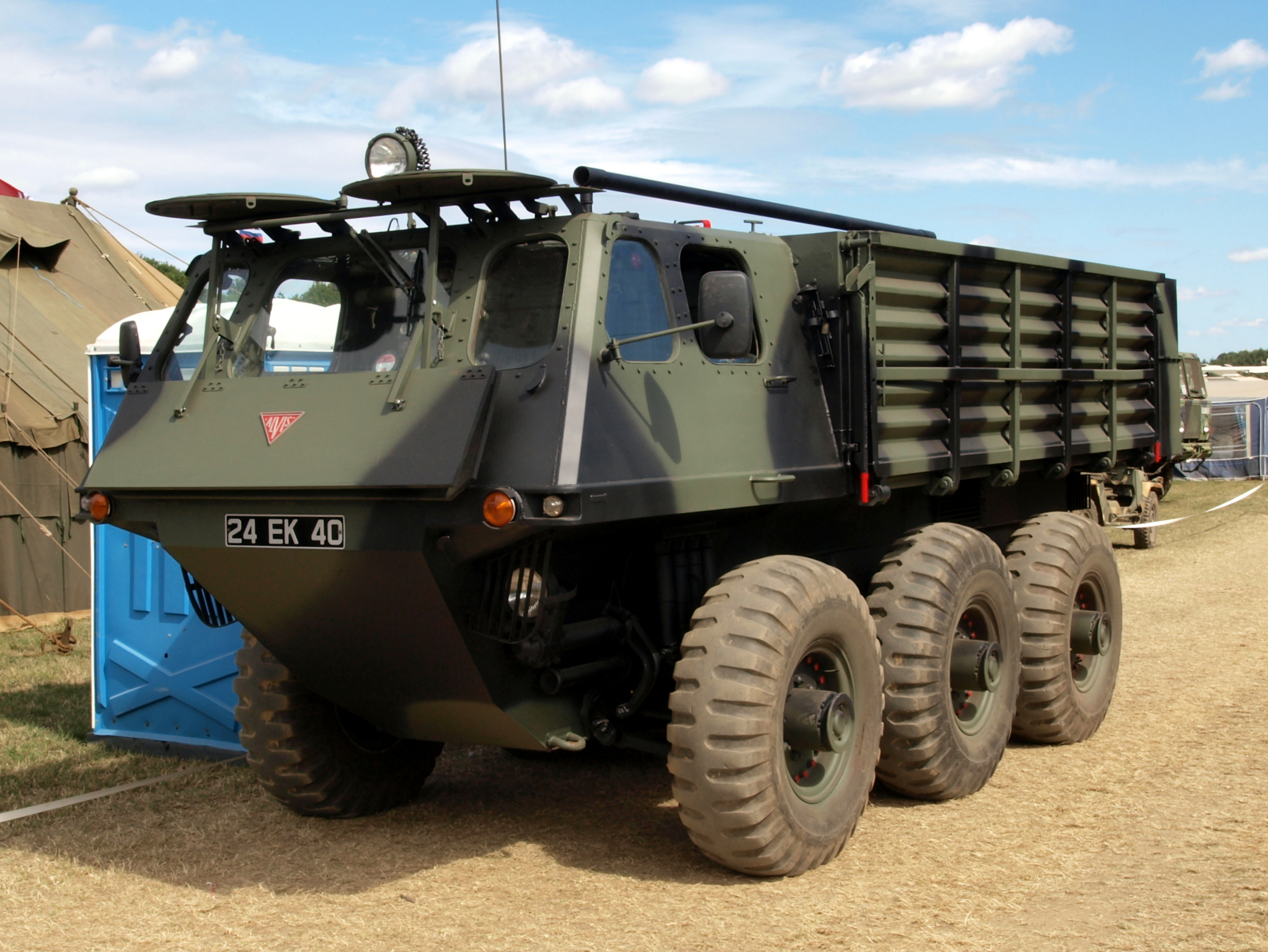 Alvis Stalwart